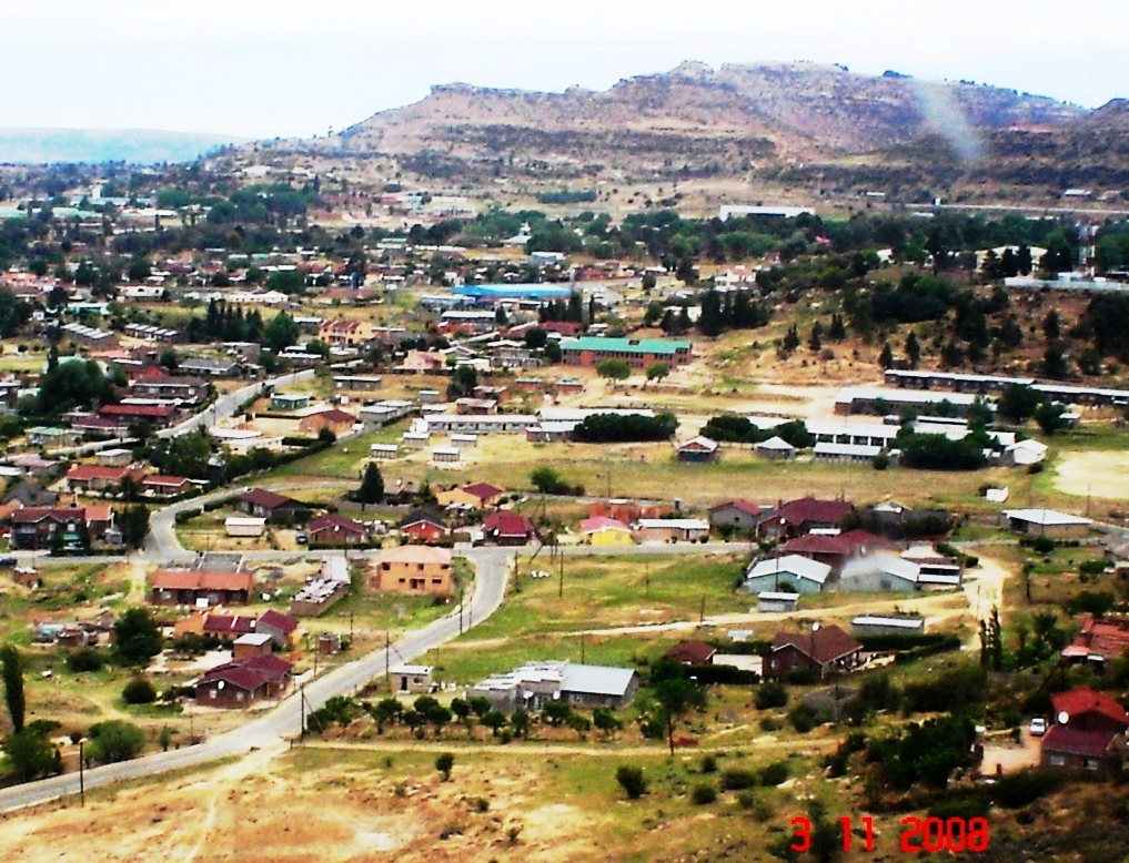 Maseru East, Maseru, Lesotho